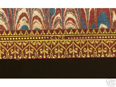 Detail of binding by Charles Capé